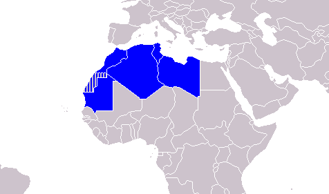 Arab_Maghreb_Union Map